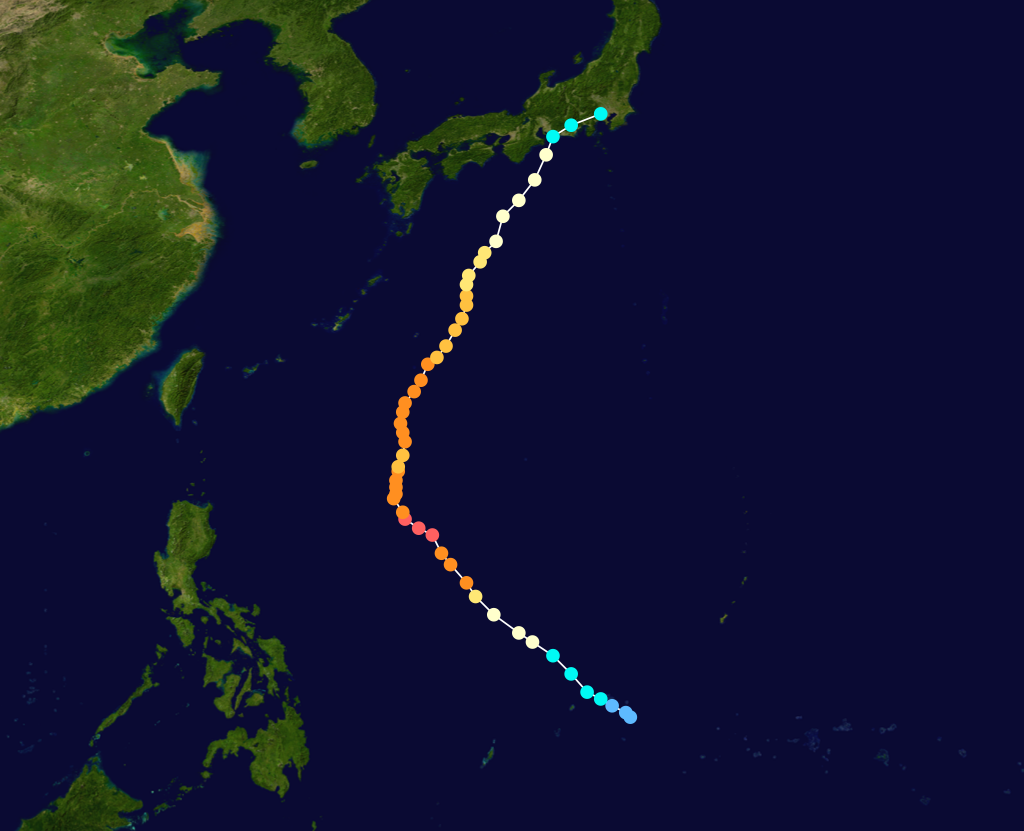 Typhoon Abby 1983 track. Uses the color scheme from the Saffir-Simpson Hurricane Scale.